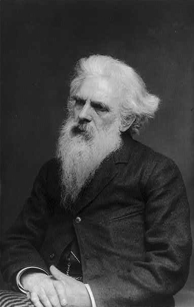 English photographer Eadweard Muybridge (1830-1904) by Frances Benjamin Johnston (1864-1952)